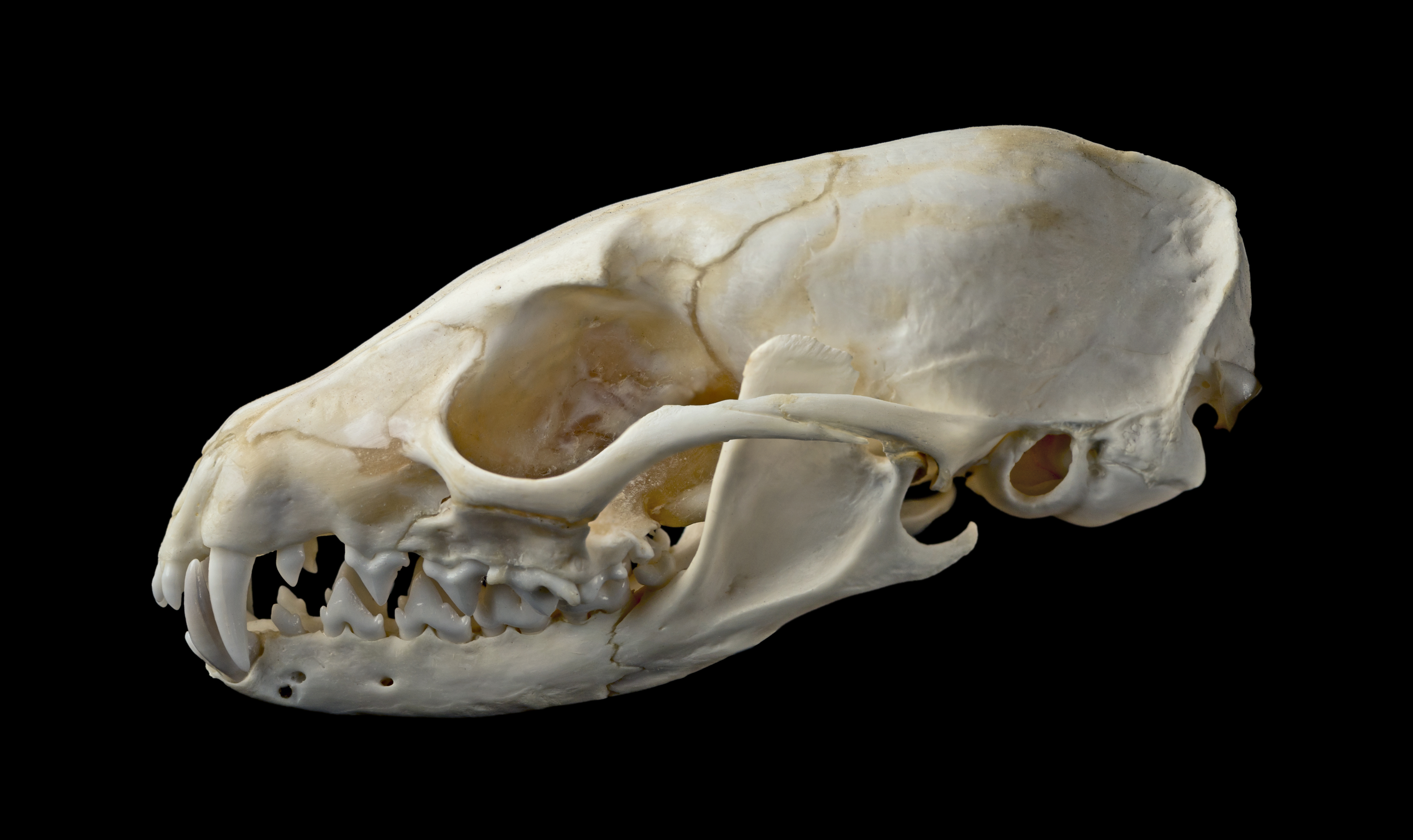 Skull of Beech marten.